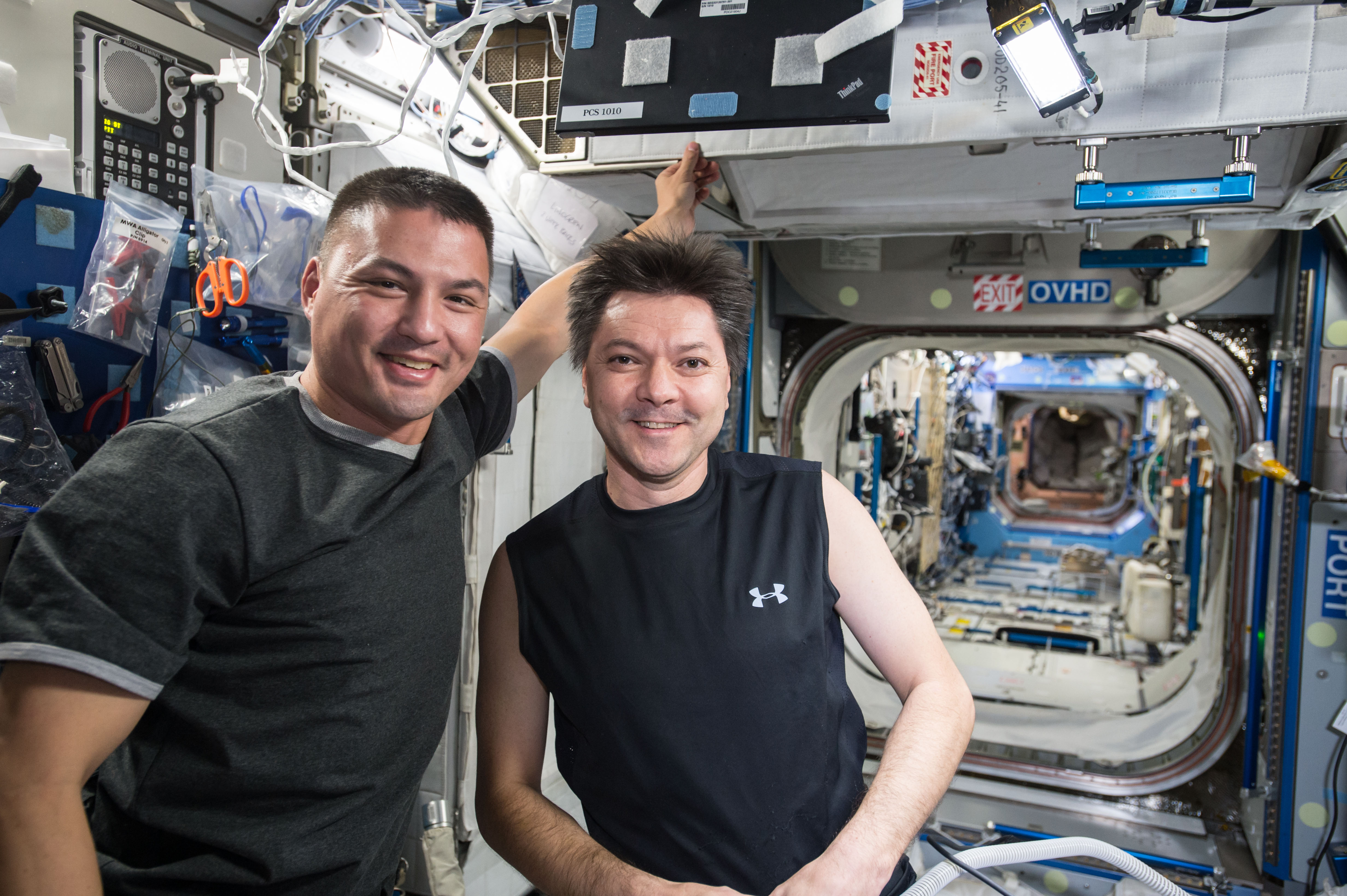 NASA Astronaut Kjell Lindgren (left) and Russian cosmonaut Oleg Kononenko (right) pictured just before a haircut. Space station crew members use a special set of clippers with a vacuum attachment to collect loose hairs in microgravity